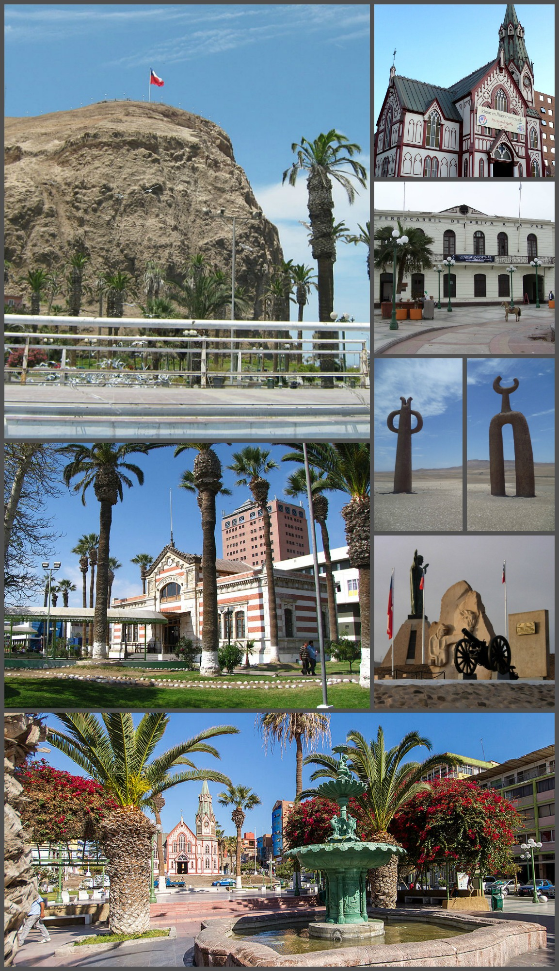 Montage of San Marcos de Arica, Arica & Parinacota Region, Republic of Chile.